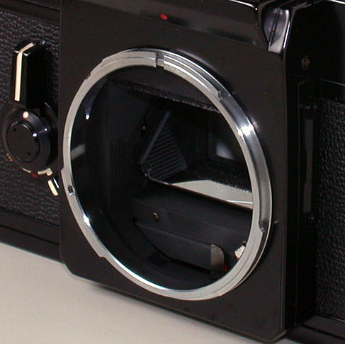 Canon FD lens mount